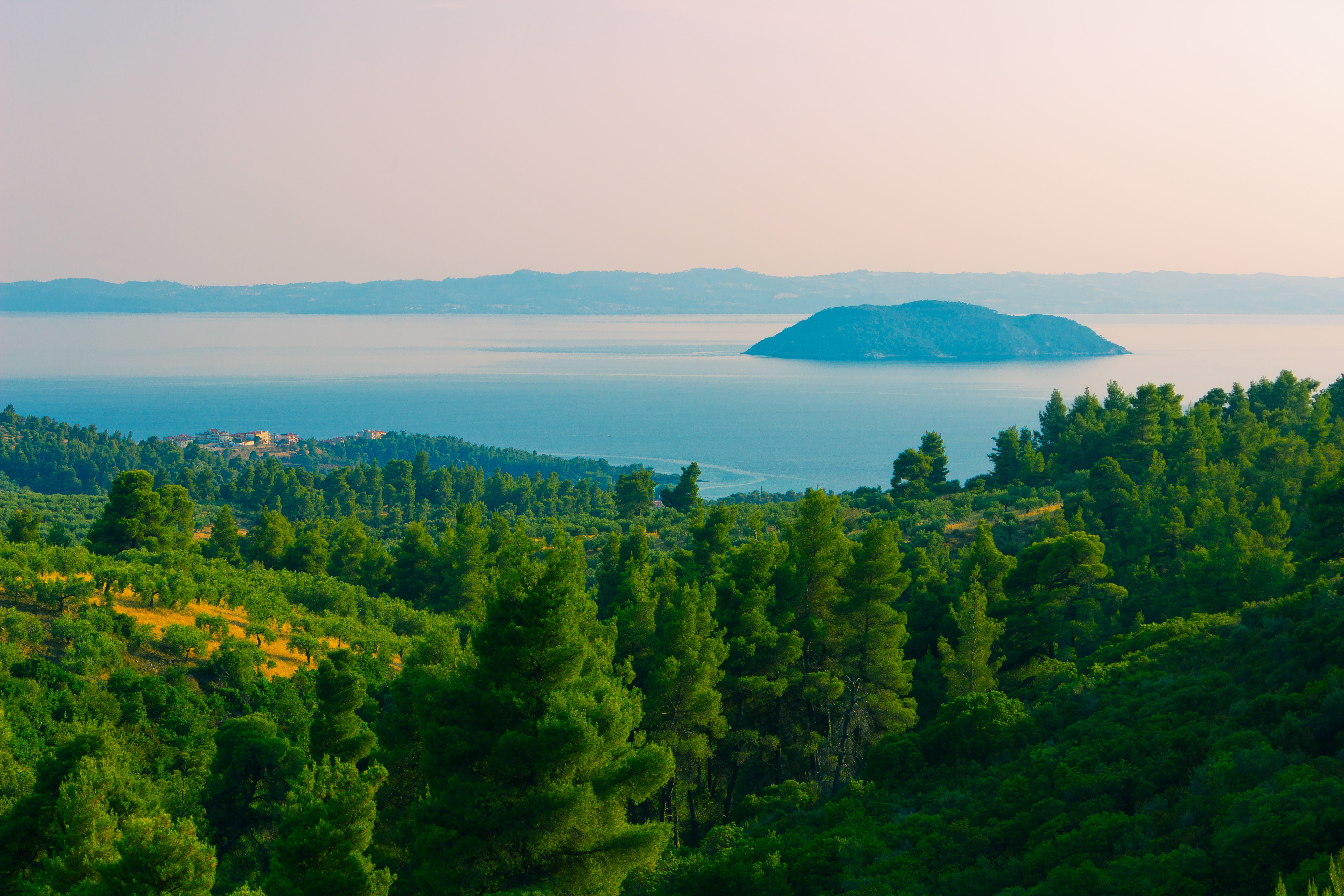 Kelyfos island in Greece at sunset, seen from a hill near Parthenonas village